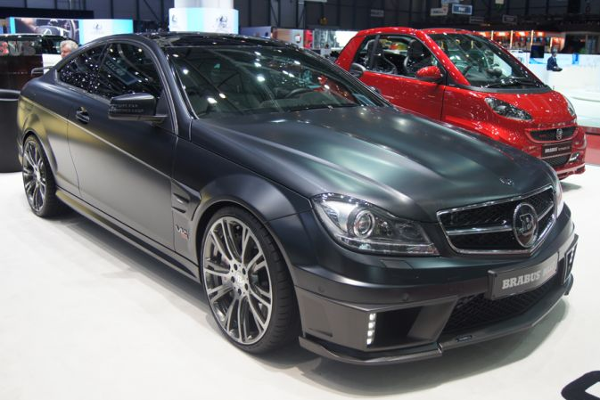 BRABUS Bullit 800 at 2012 Geneva Motor Show.